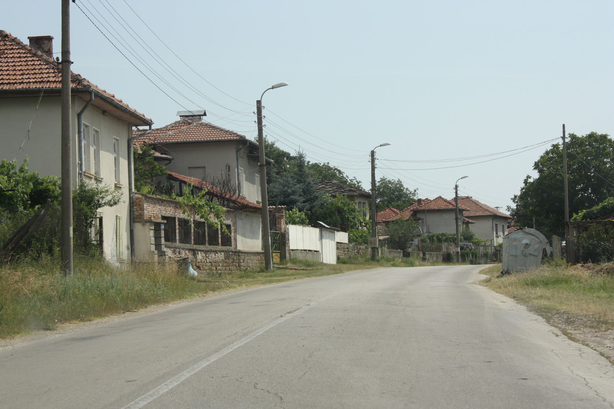 Sofia-Varna Road - a main street in Sokolovo villagem, Bulgaria